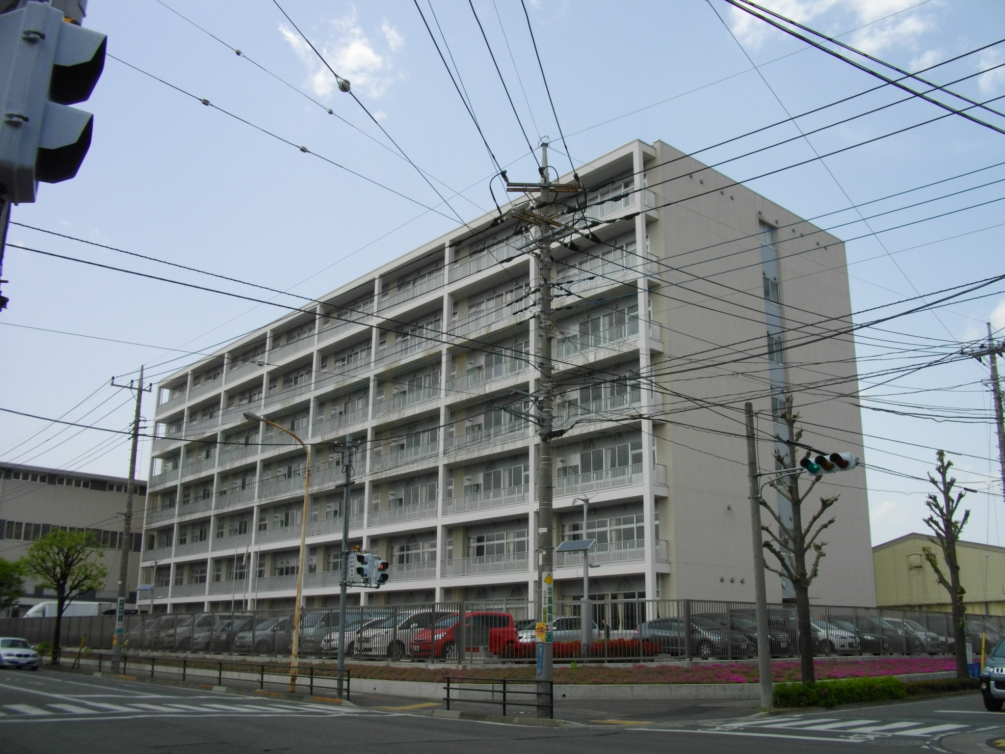 Maebashi Commercial High School